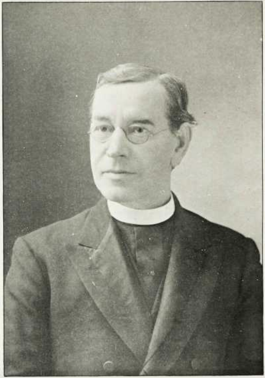 Portrait of Jerome Daugherty, president of Georgetown University